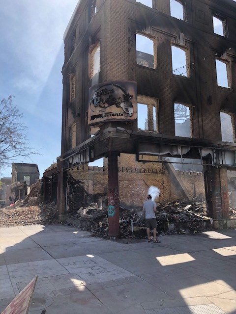 A building that housed the El Nuevo Rodeo restaurant and night club in Minneapolis on May 31, 20202, a few days after main protests in the aftermath of George Floyd's killing by a Minneapolis police officer.